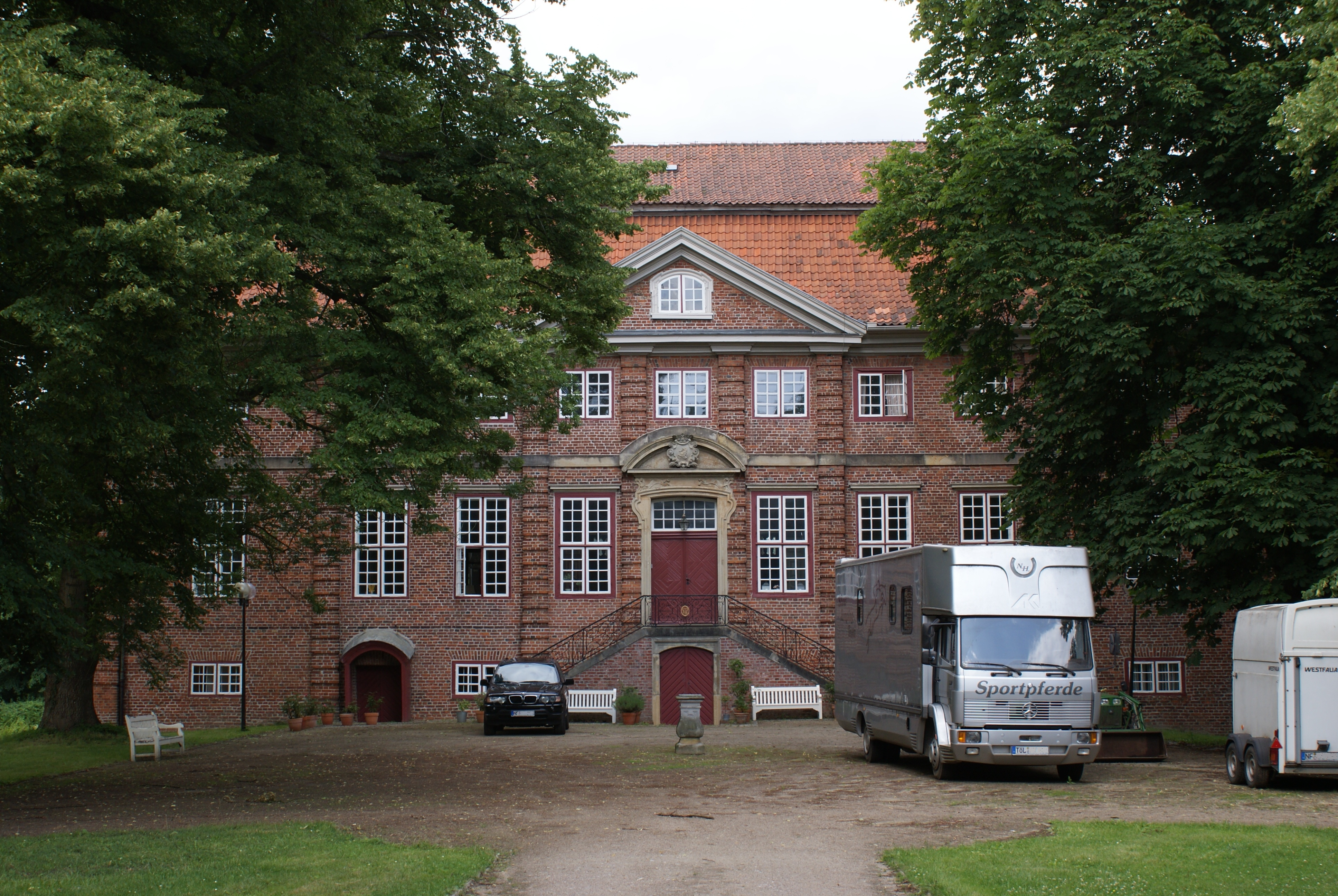 Steinhorst Manor, Schleswig-Holstein